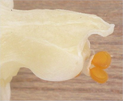 Phaleanopsis pollinia